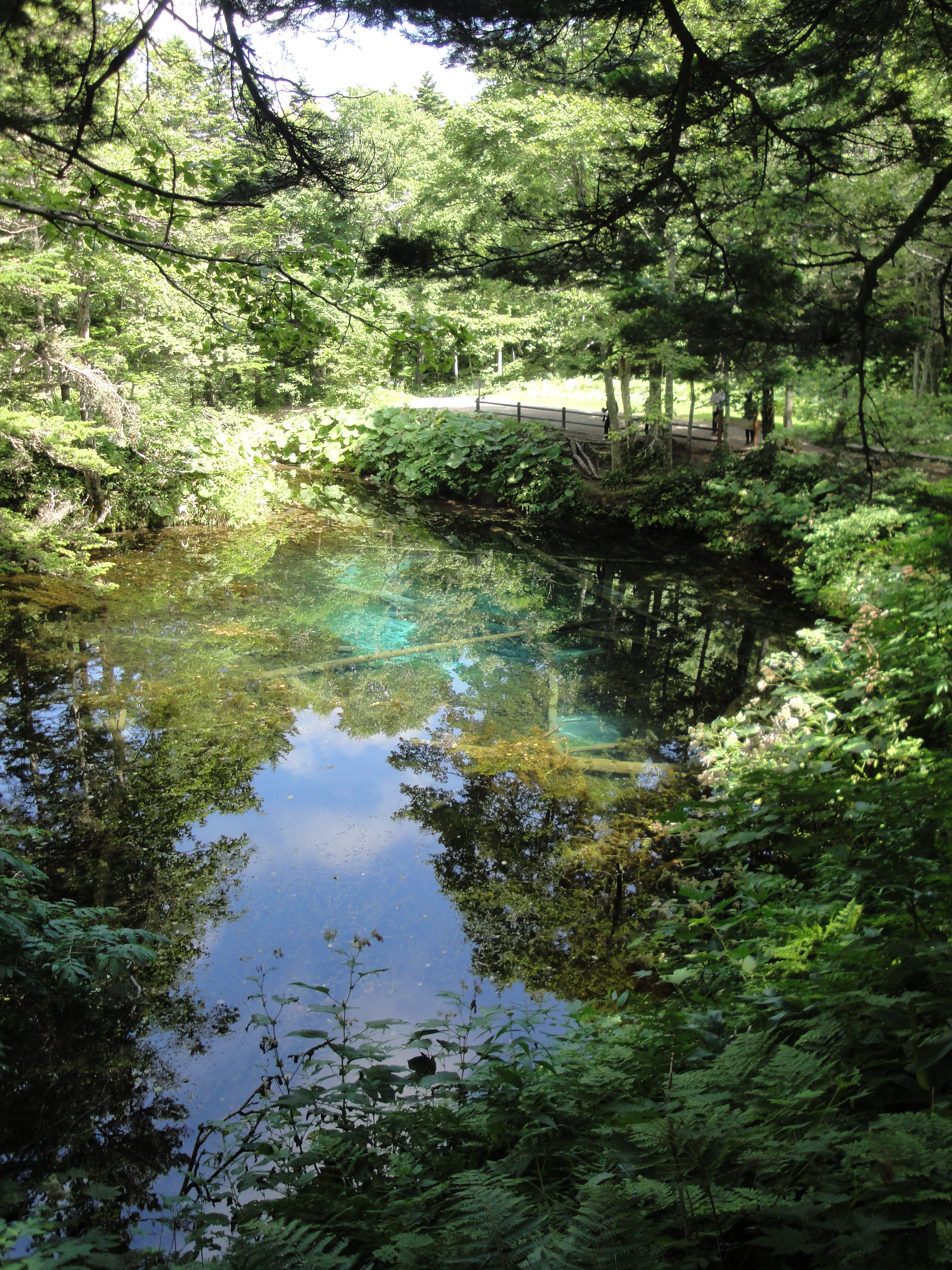 Kaminokoike